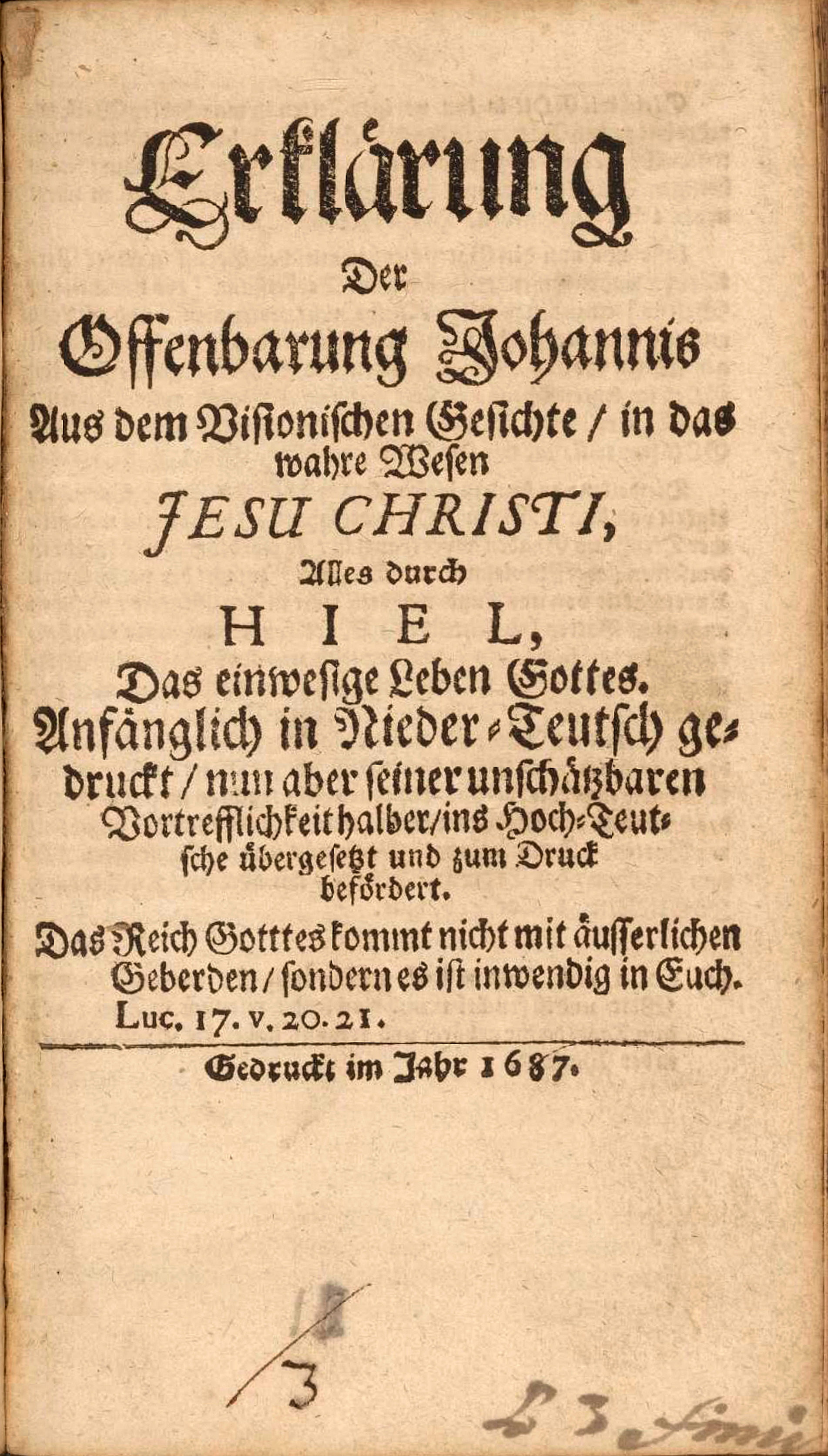 Erklärung Der Offenbarung Johannis, Alles durch Hiël, Gedruckt im Jahr 1687 The Ritman Library, Bibliotheca Philosphica Hermetica, Amsterdam